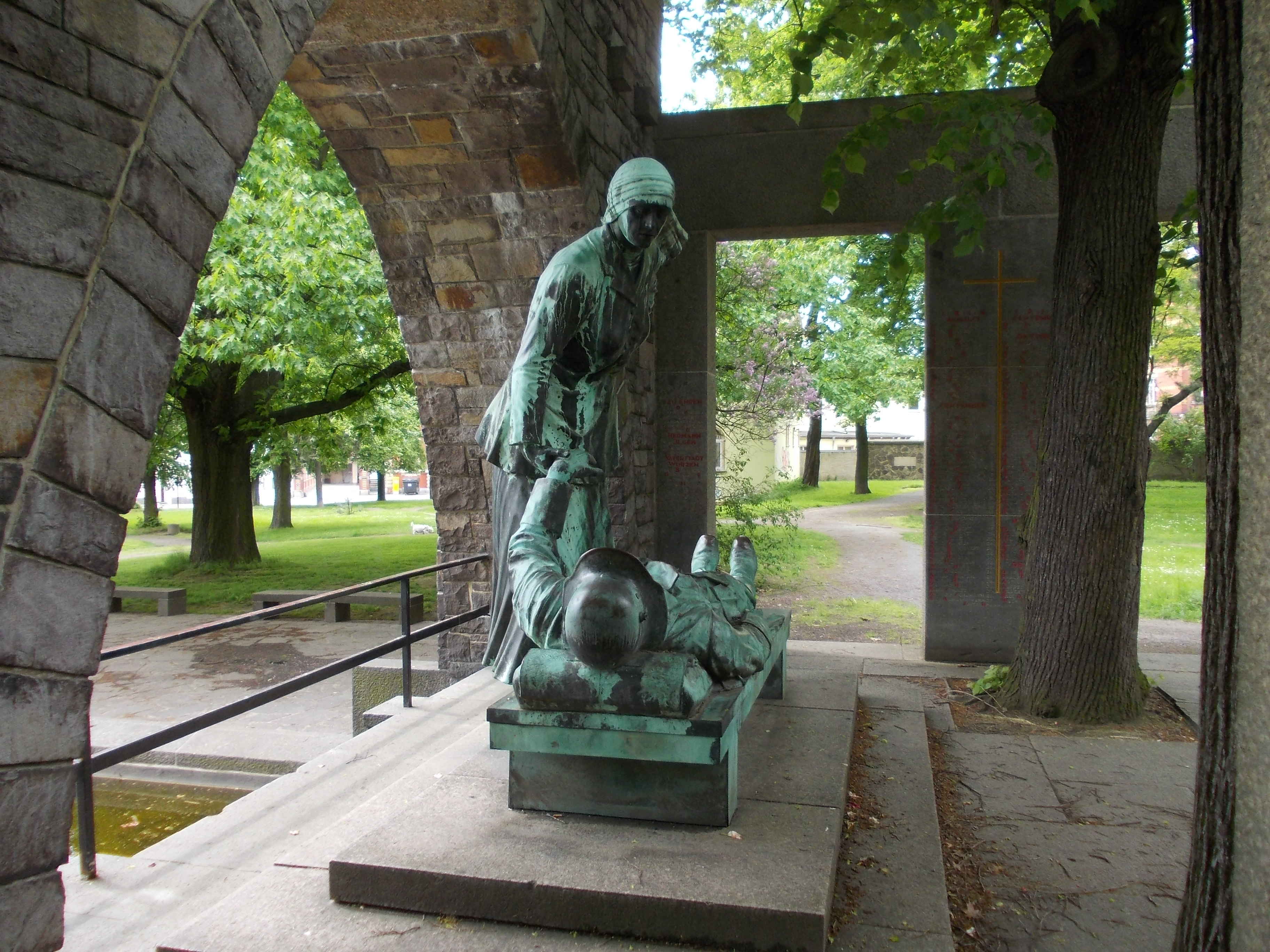 Detail of the Worl War I memorial at the Old Cemetery in Wurzen (Leipzig district, Saxony)